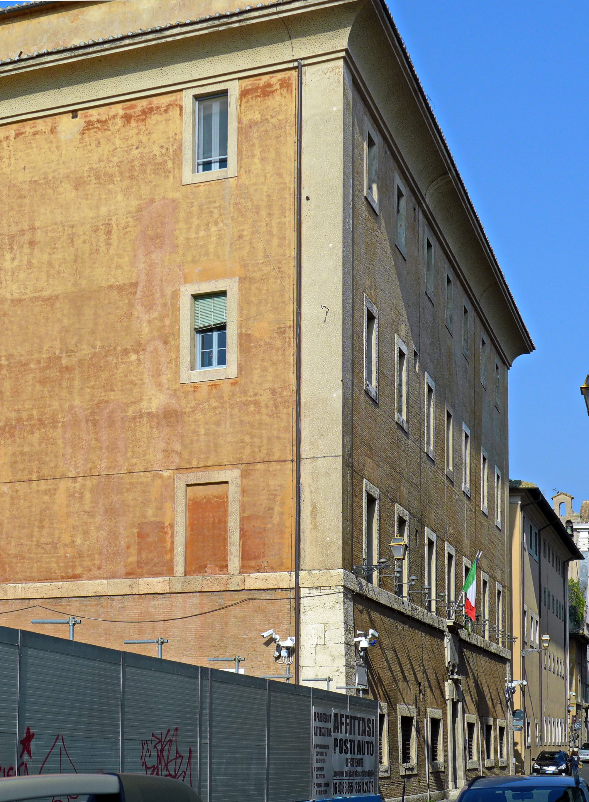 Via Giulia (Rome) Carceri Nuove